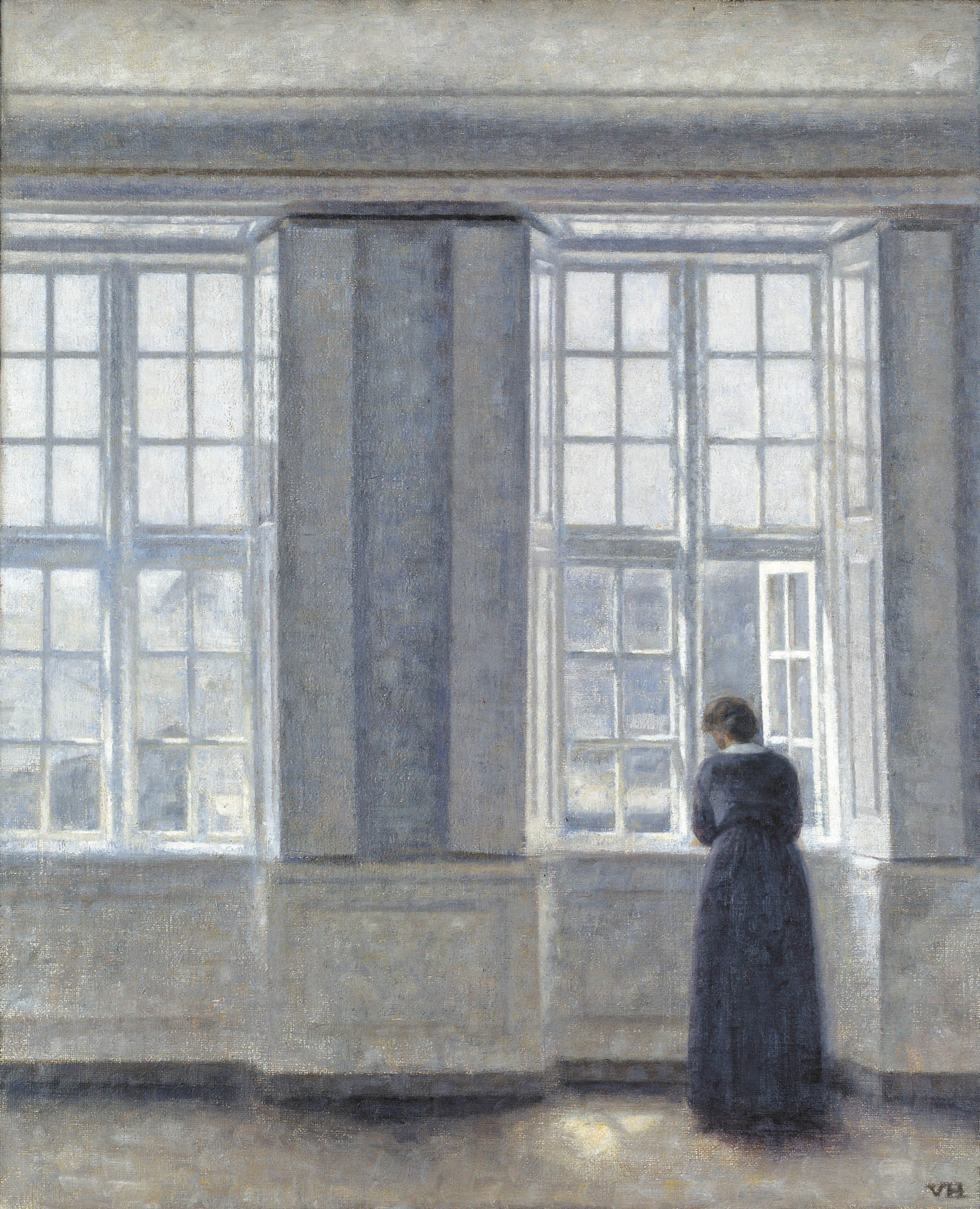 The Tall Windows 1913label QS:Lda,"De høje vinduer."label QS:Len,"The Tall Windows 1913"